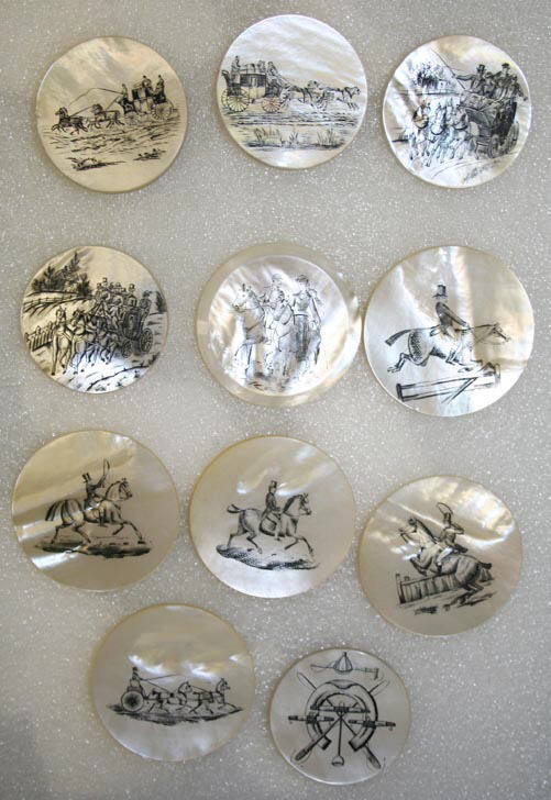 British; Button